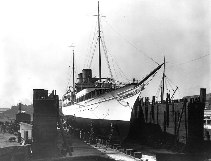 Photo #: NH 69814 Noma (American Steam Yacht, 1898) Drydocked at the Union Iron Works shipyard, San Francisco, California, in 1915. This yacht served as USS Noma (SP-131) in 1917-1919. Note her figurehead. Courtesy of the San Francisco Maritime Museum, 1969.